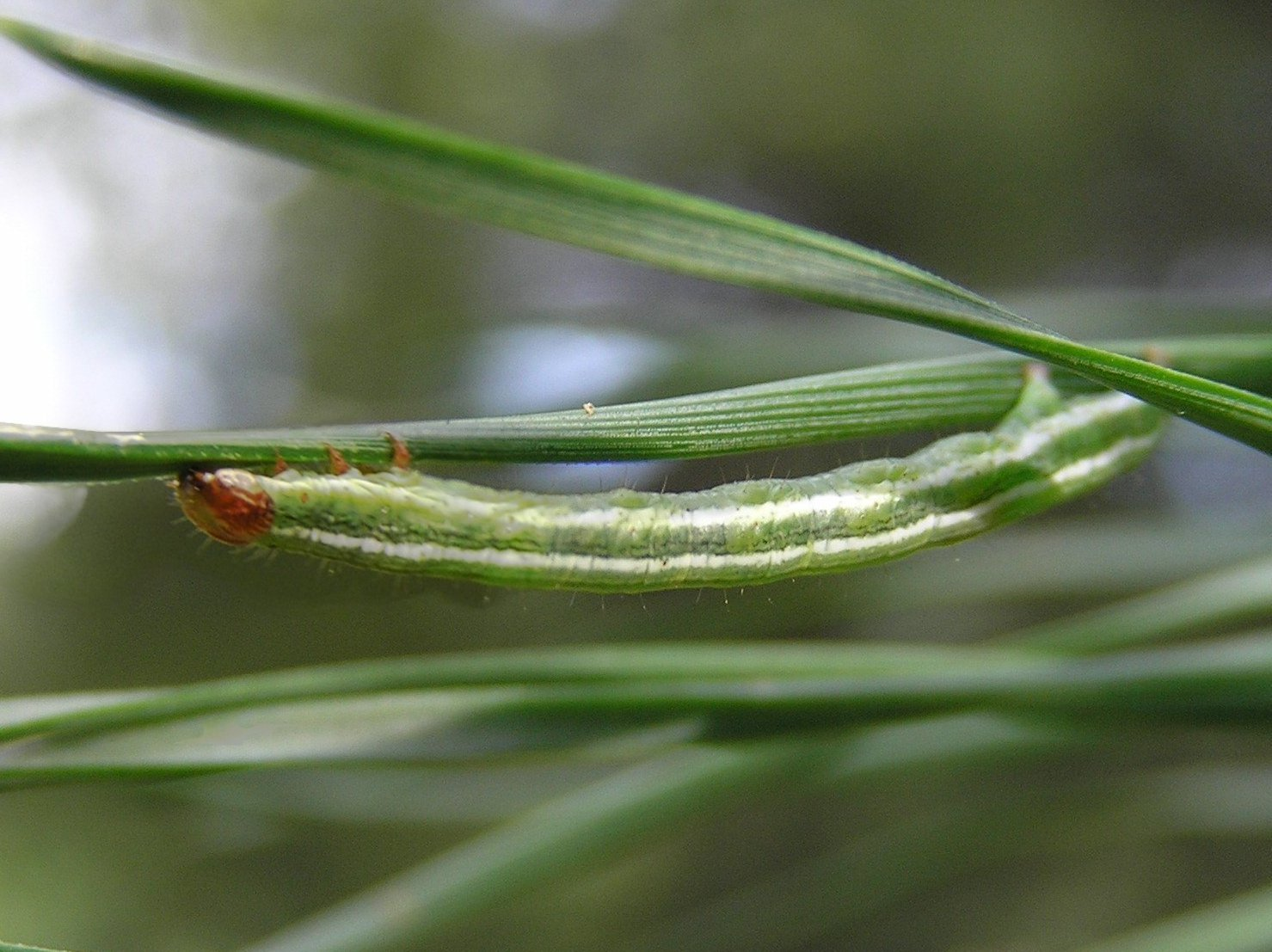 unidentified Geometridae caterpillar Bupalus piniarius Poproch cetyniak; Polska